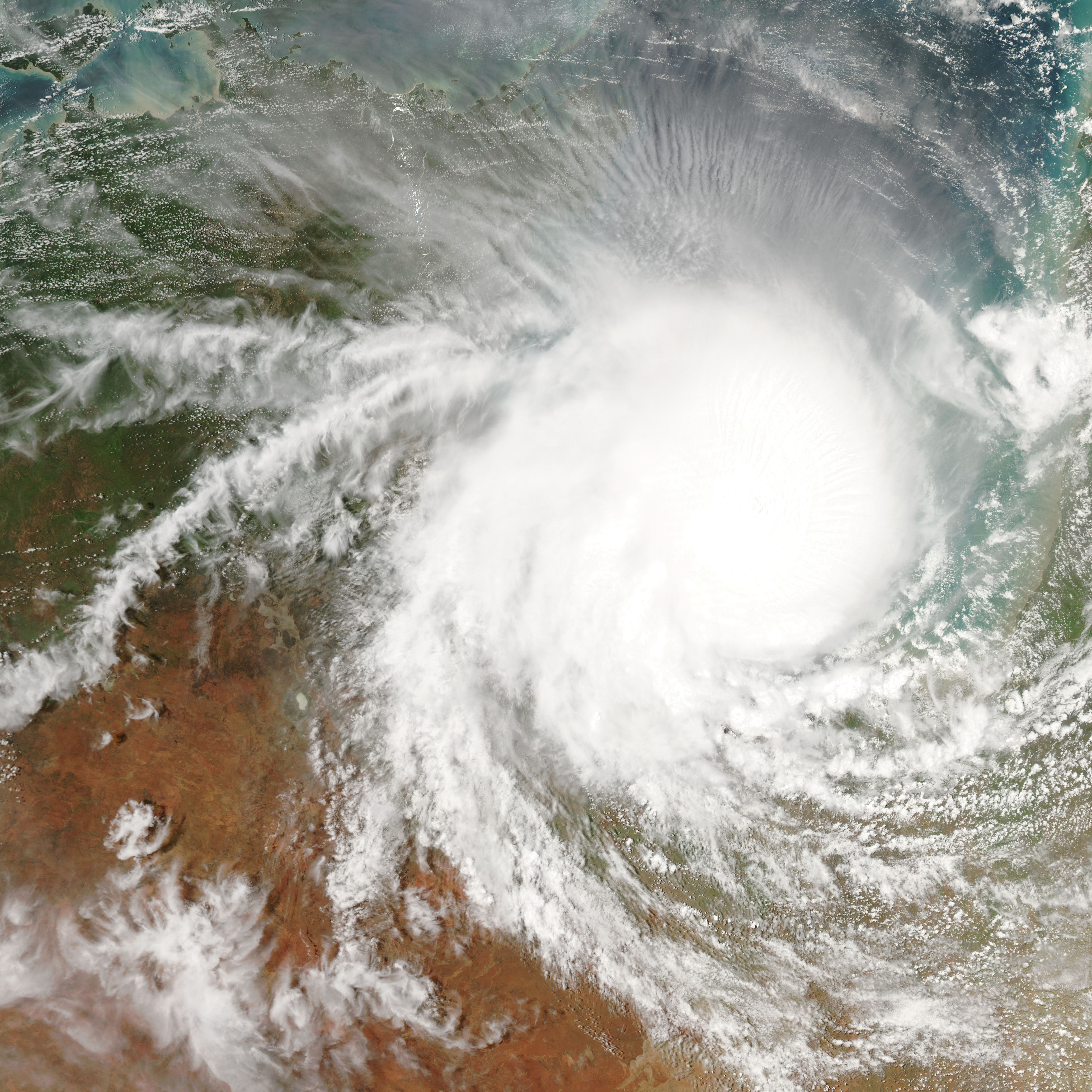 This image from the Moderate Resolution Imaging Spectroradiometer (MODIS) on NASA’s Aqua satellite shows Cyclone Harvey in the Gulf of Carpentaria at 4:30 UTC on February 7, 2005. At the time this image was taken, Harvey had maximum sustained winds of 58 mph (50 knots) with maximum gusts near 75 mph (65 knots) and was moving towards the southwest at 15 mph (13 knots). The cyclone was expected to impact the coast on Monday afternoon (local time) near the border between the Northern Territory and Queensland.